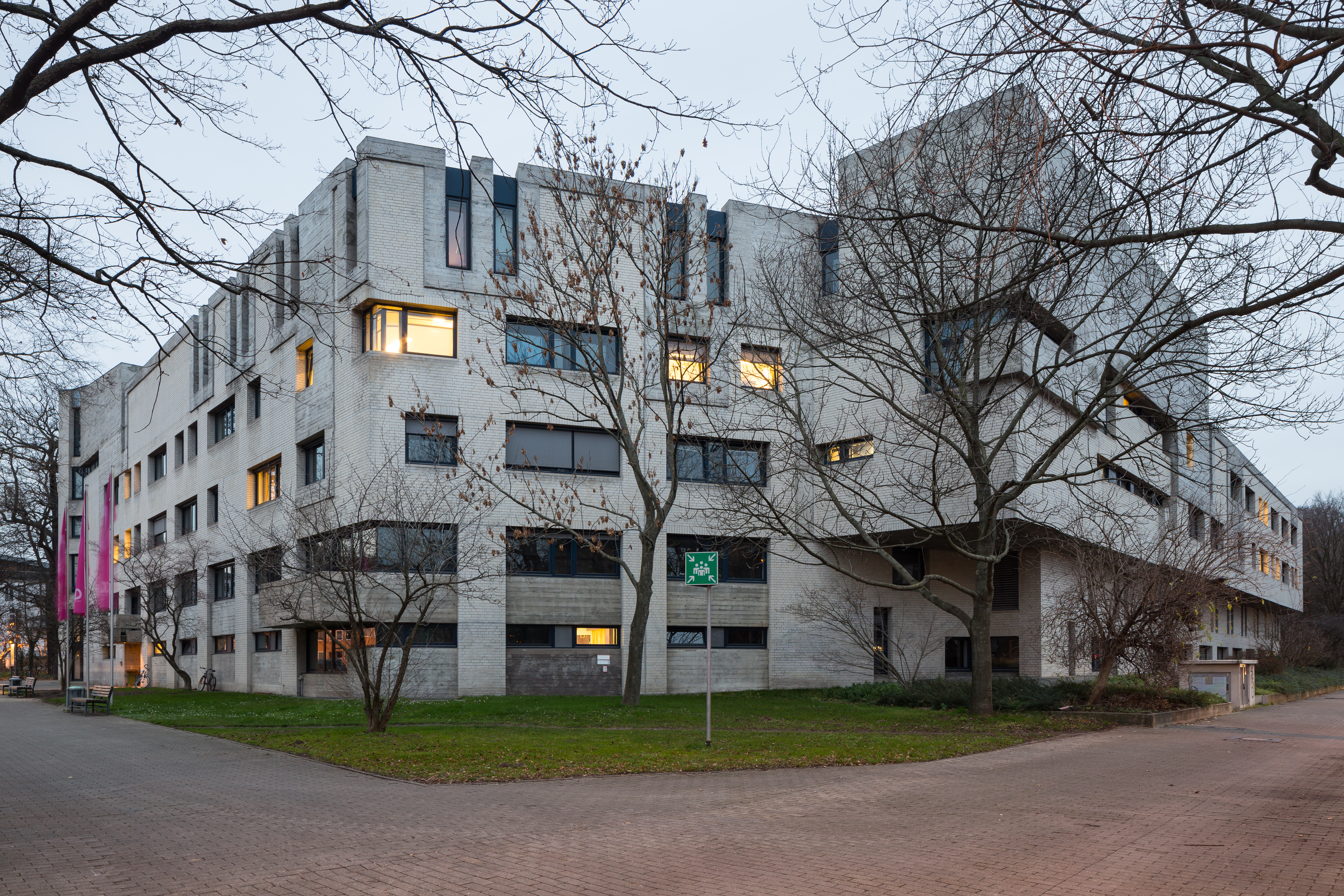 School for music, theater and media Hannover (HMTMH) located Emmichplatz square in Zoo quarter of Hannover, Germany.